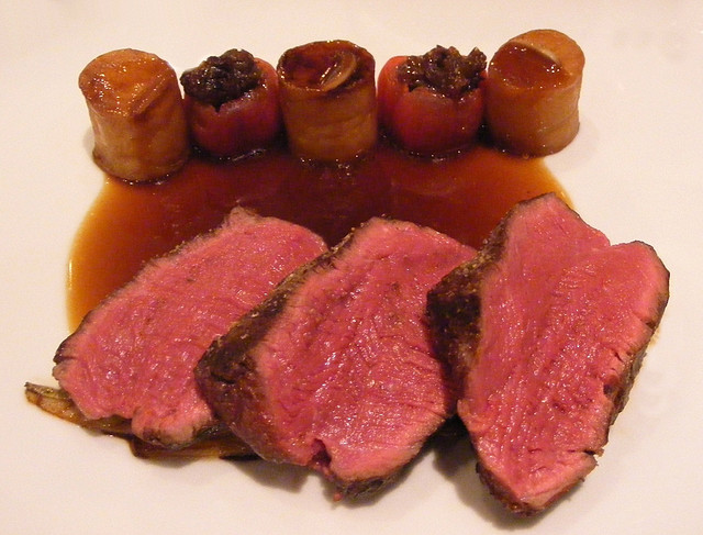 slice of roast beef with wine sauce